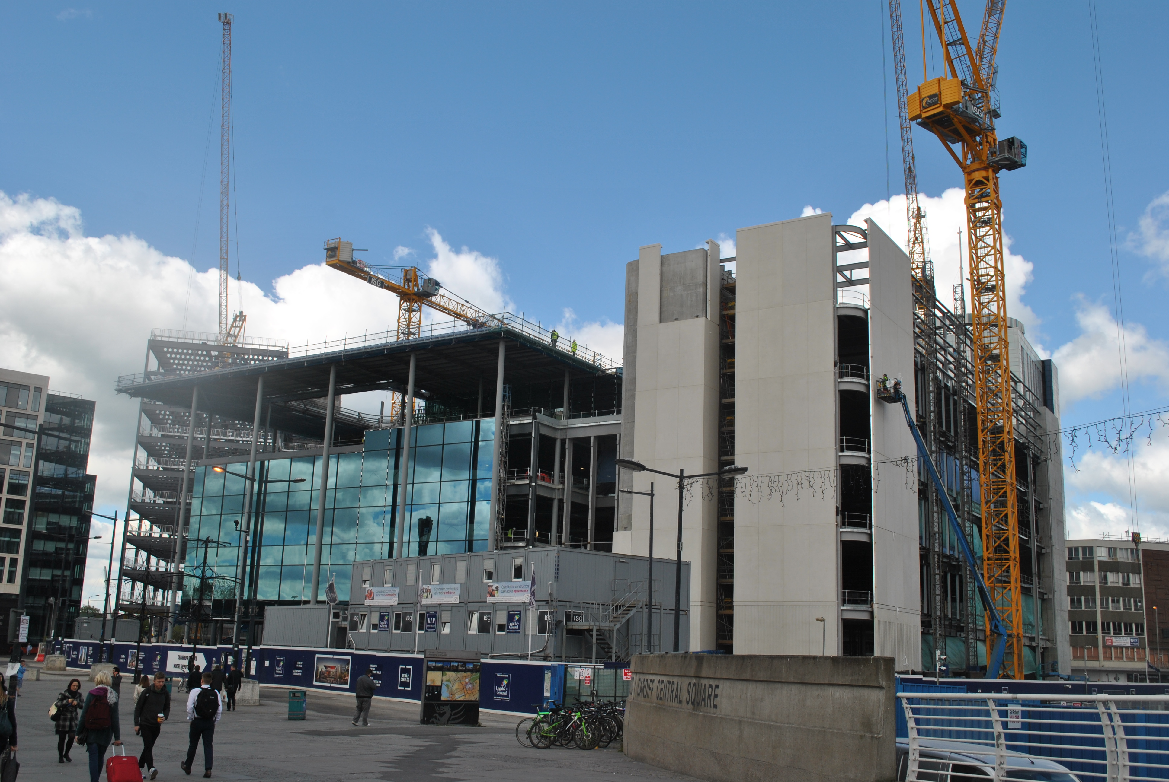 During construction, BBC building, Central Square, Cardiff